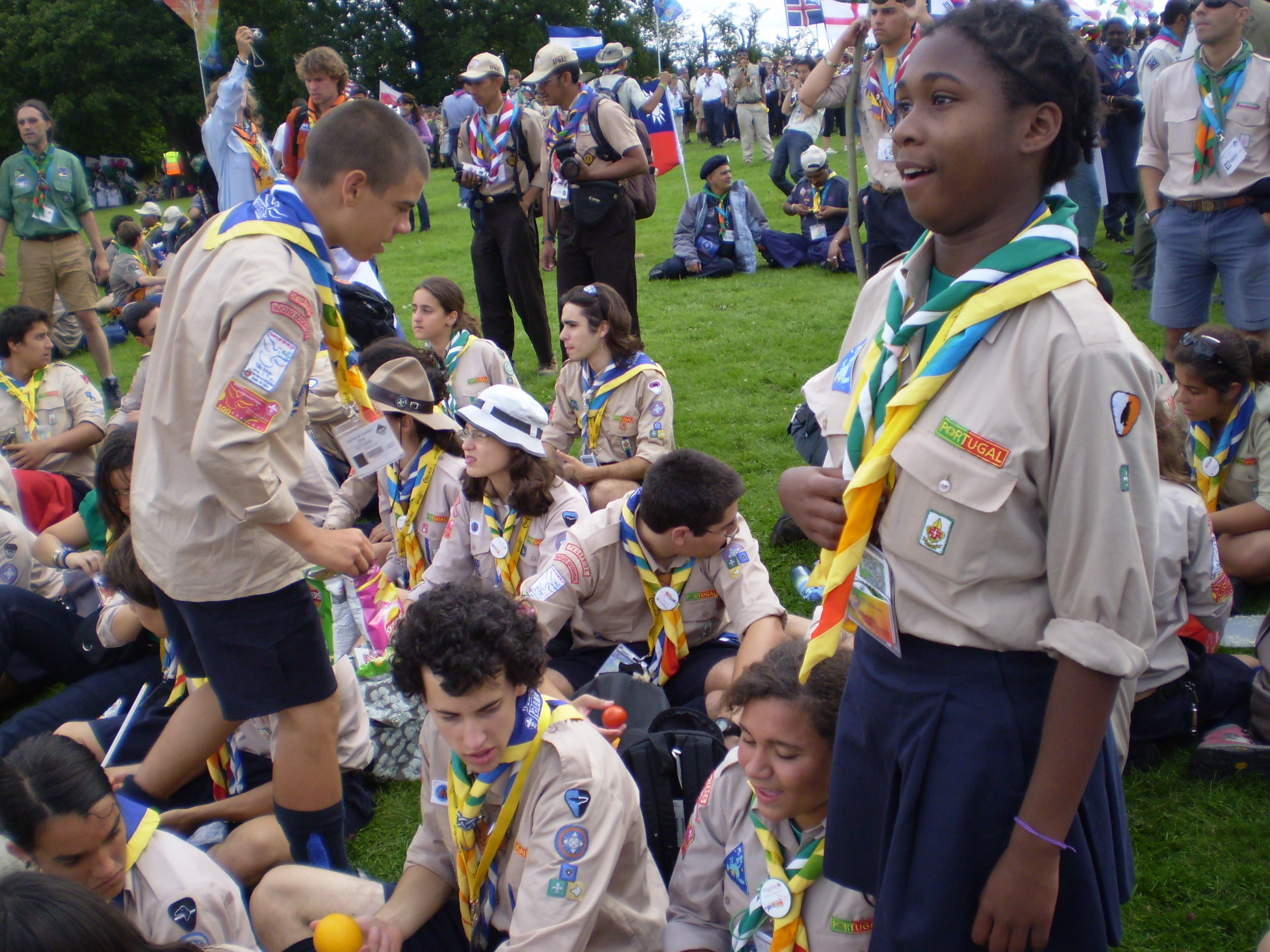 Scouts from Portugal at the opening ceremony of the 21st World Scout Jamboree